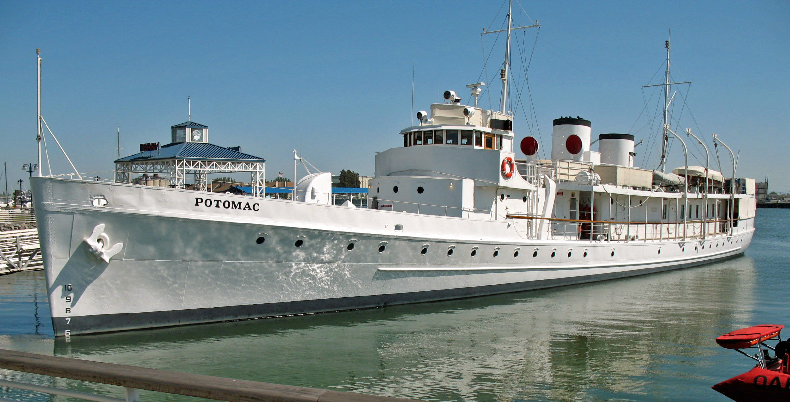 USS Potomac, 1660 Embarcadero, Oakland, CA (Jack London Square). Presidential yacht of Franklin D. Roosevelt. Photographed from the walkway to the northwest of the vessel.